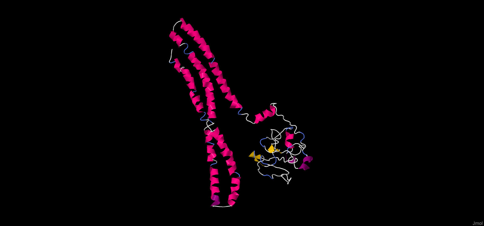 This tertiary structure was predicted by I-TASSER and modeled using J-Mol.